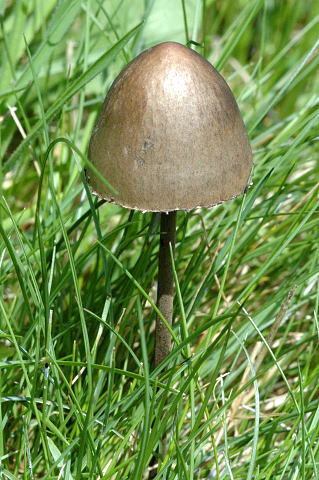 Panaeolus sphinctrinus from Commanster, Belgium. The determination of the species shown in this picture has been verified.